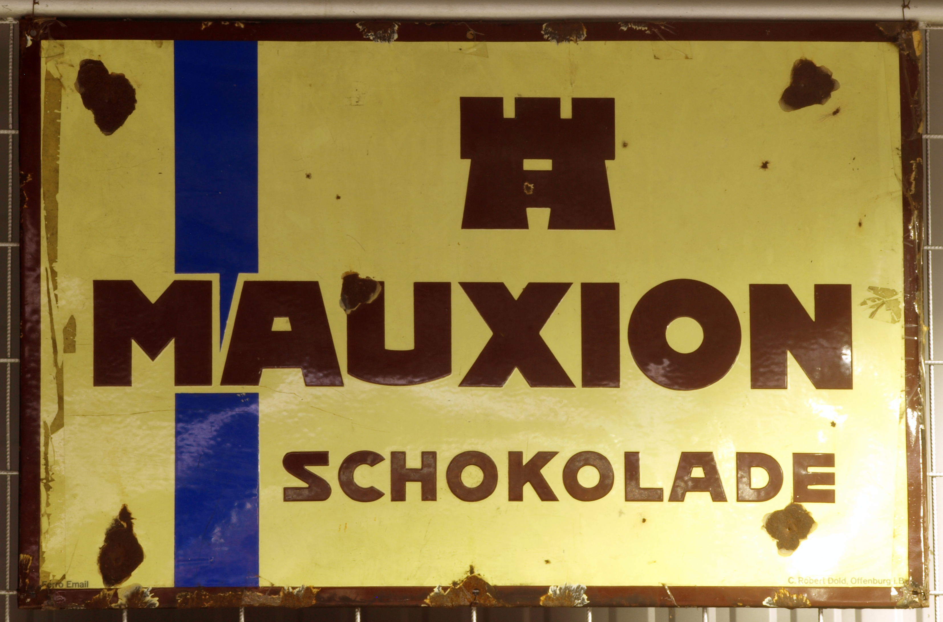 Enamel advertising sign, Mauxion schokolade.